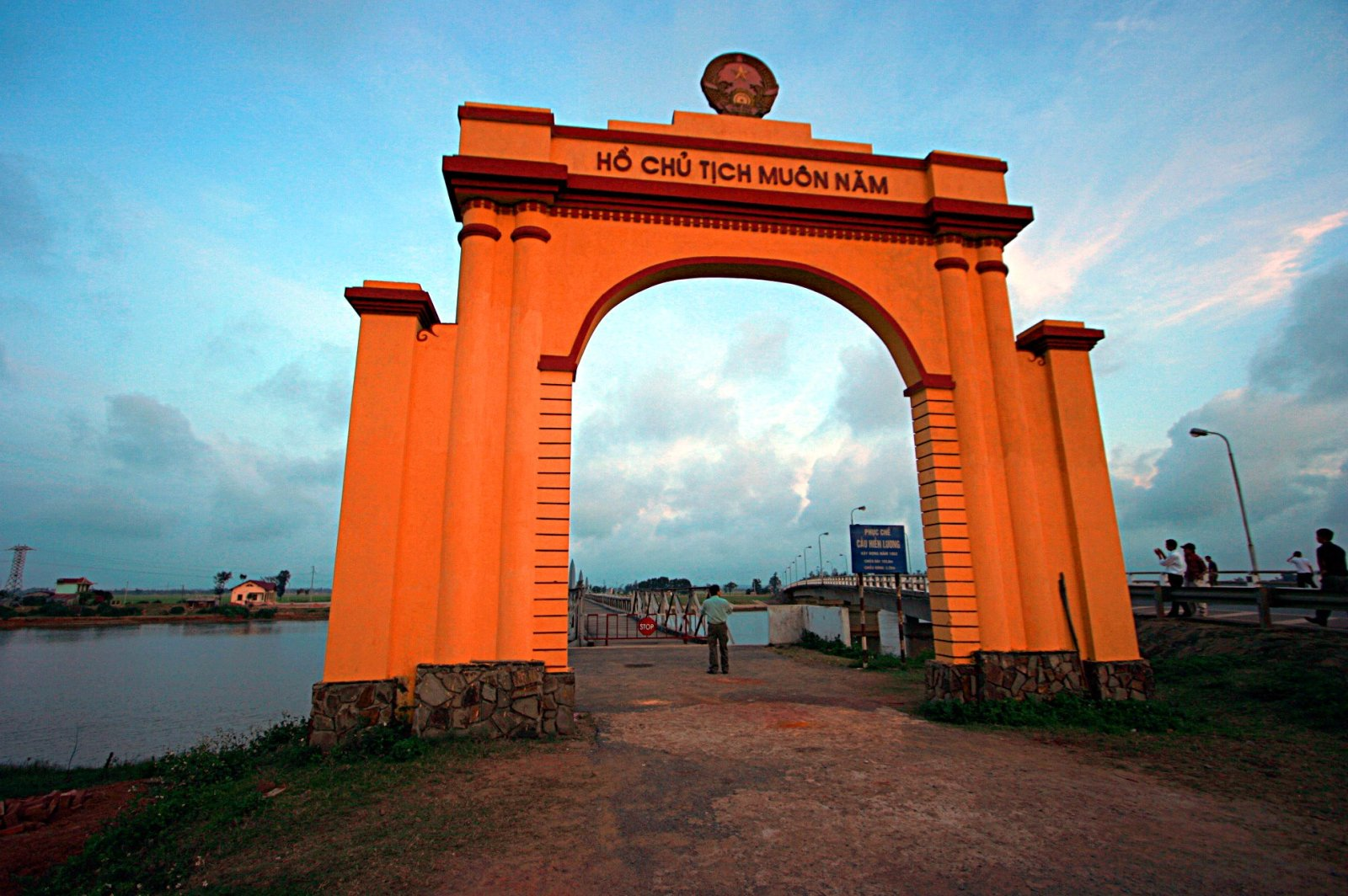 Photograph of the memorial arch at the old Hien Luong Bridge over the Ben Hai River in Vietnam.